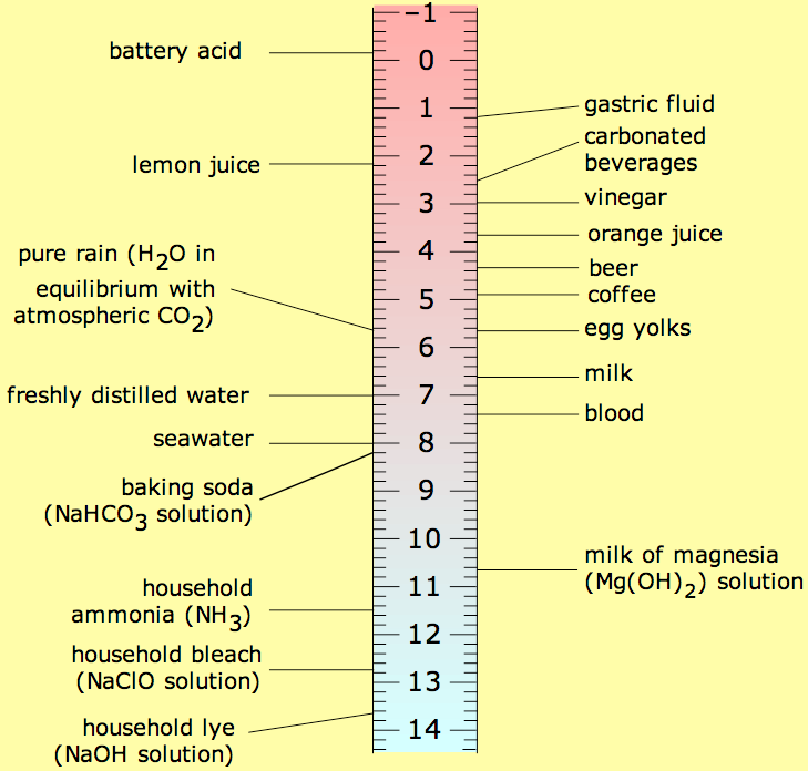 pH scale showing common substances